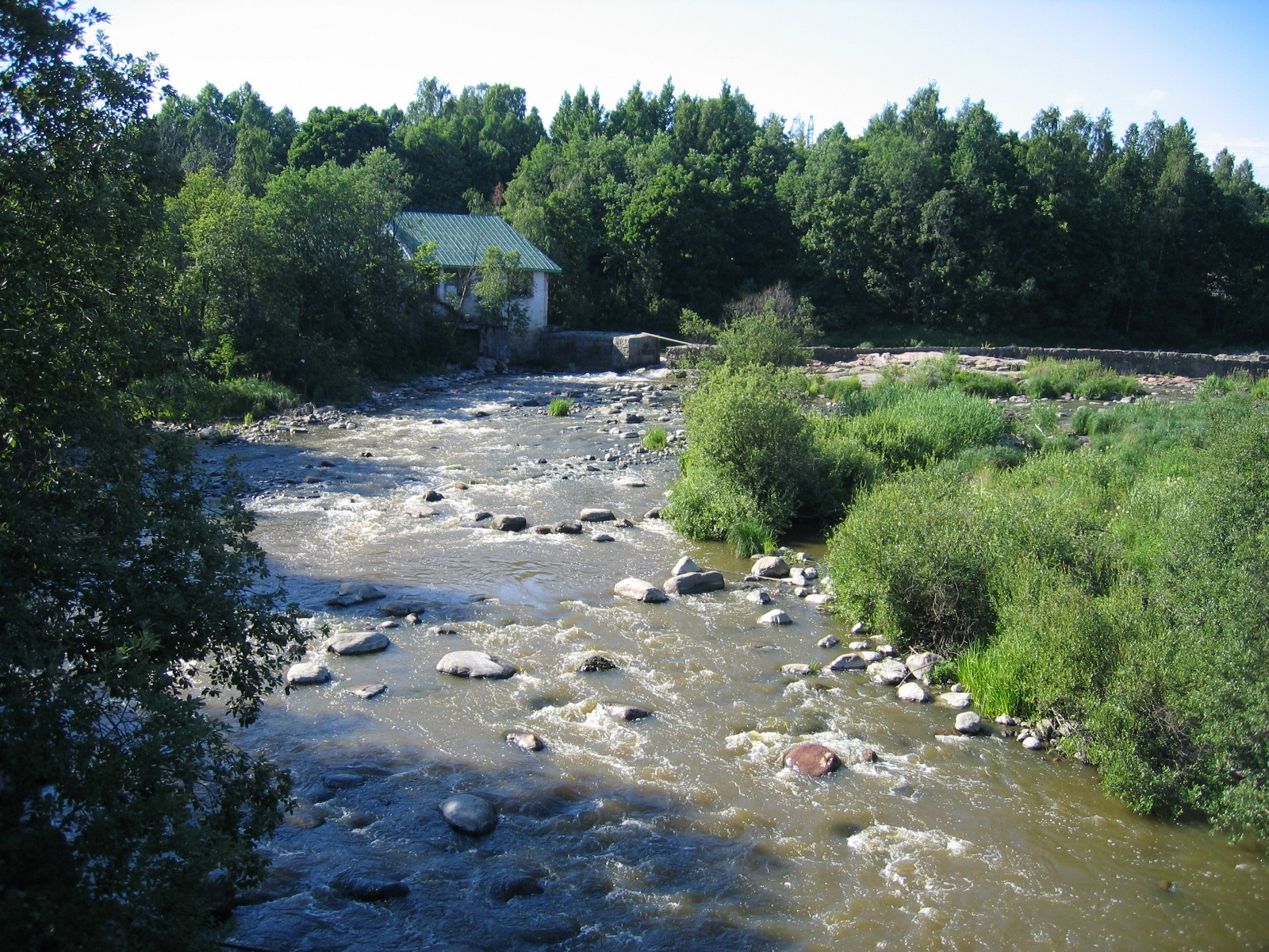 Vantaankoski in Vantaa, Finland